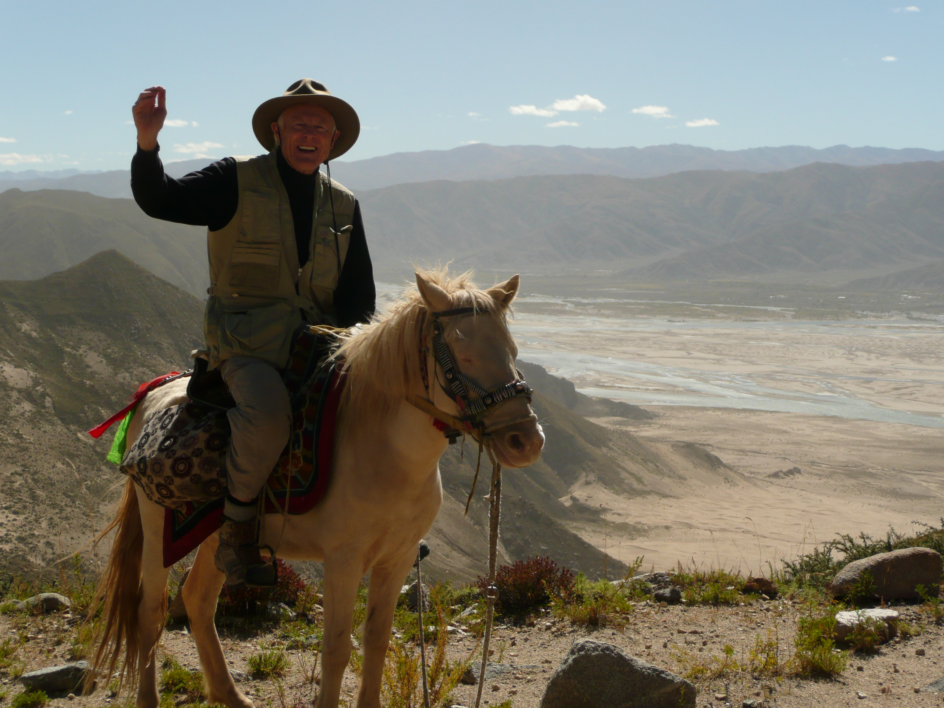 Alan Nichols on the Khenzimane Path near Lhasa, Tibet.